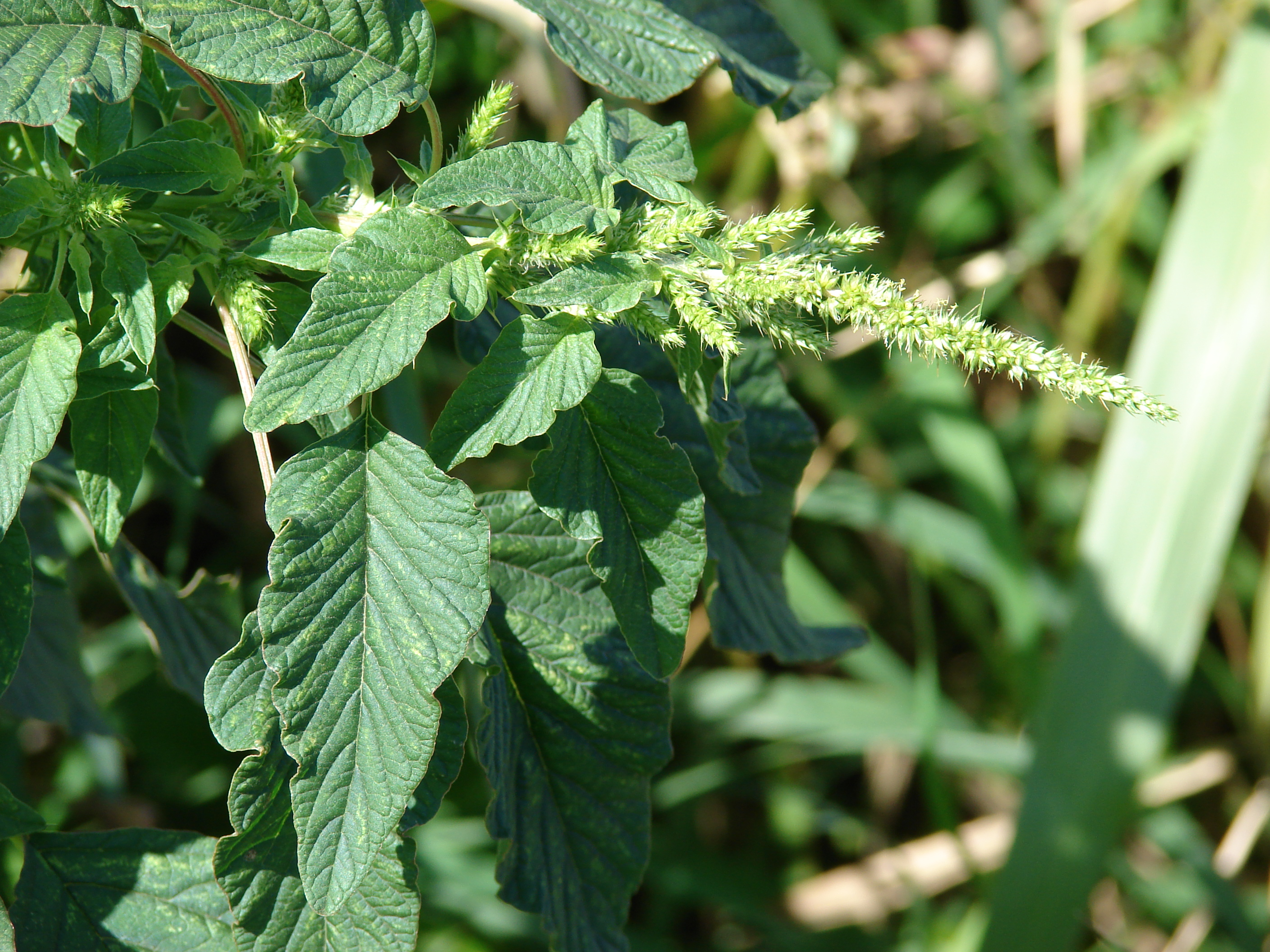 Amaranthus spinosus (inflorescence). Location: Maui, Waihee